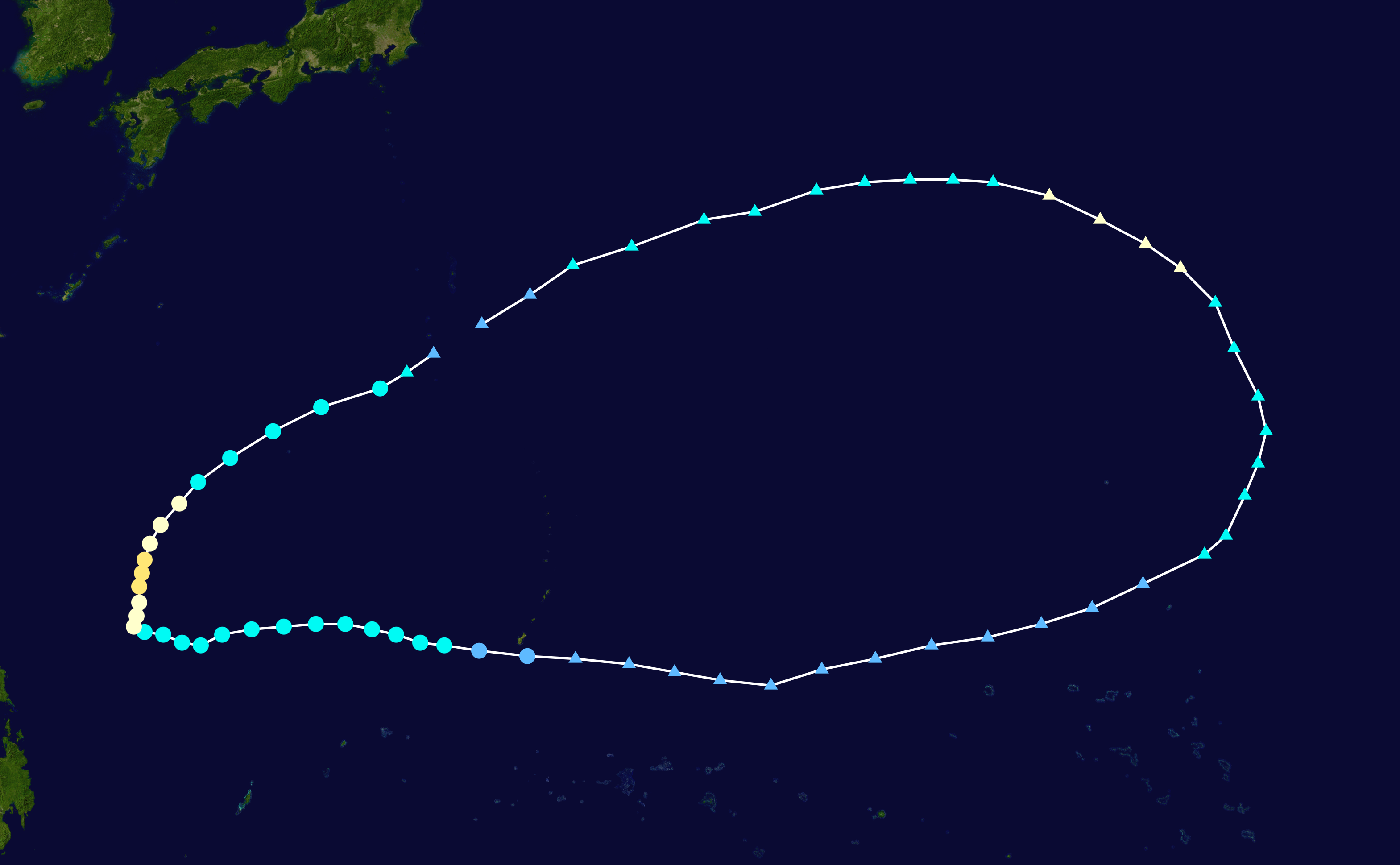 Track map of Typhoon Dolphin of the 2008 Pacific typhoon season. The points show the location of the storm at 6-hour intervals. The colour represents the storm's maximum sustained wind speeds as classified in the Saffir–Simpson scale (see below), and the shape of the data points represent the nature of the storm, according to the legend below. Saffir–Simpson scale Tropical depression≤38 mph≤62 km/h Category 3111–129 mph178–208 km/h Tropical storm39–73 mph63–118 km/h Category 4130–156 mph209–251 km/h Category 174–95 mph119–153 km/h Category 5≥157 mph≥252 km/h Category 296–110 mph154–177 km/h Unknown Storm type Tropical cyclone Subtropical cyclone Extratropical cyclone / Remnant low / Tropical disturbance / Monsoon depression